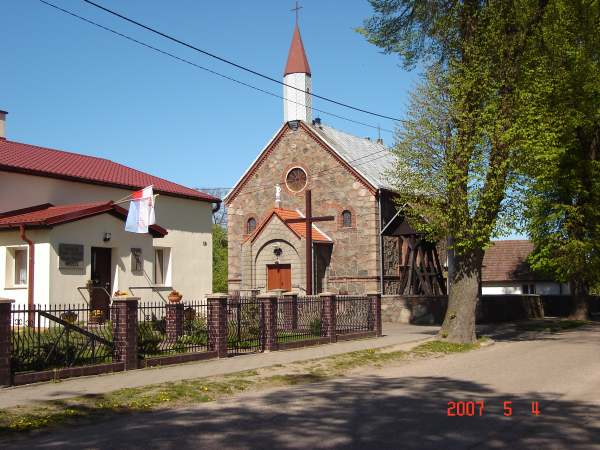 Redło (Świdwin County), rectory and Parish Church of St John the Baptist.